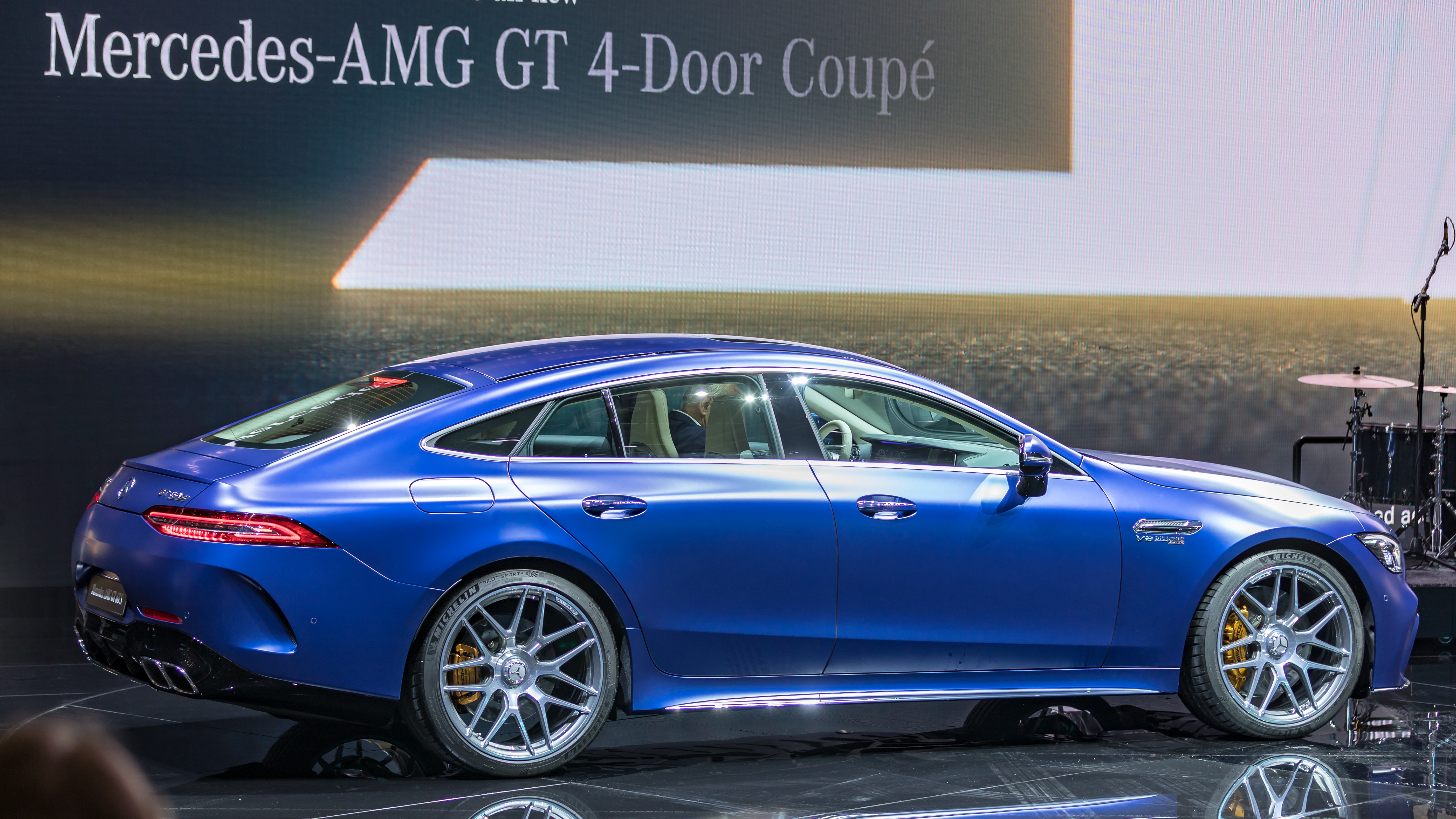 Mercedes-Benz Cars press conference, Geneva International Motor Show 2018